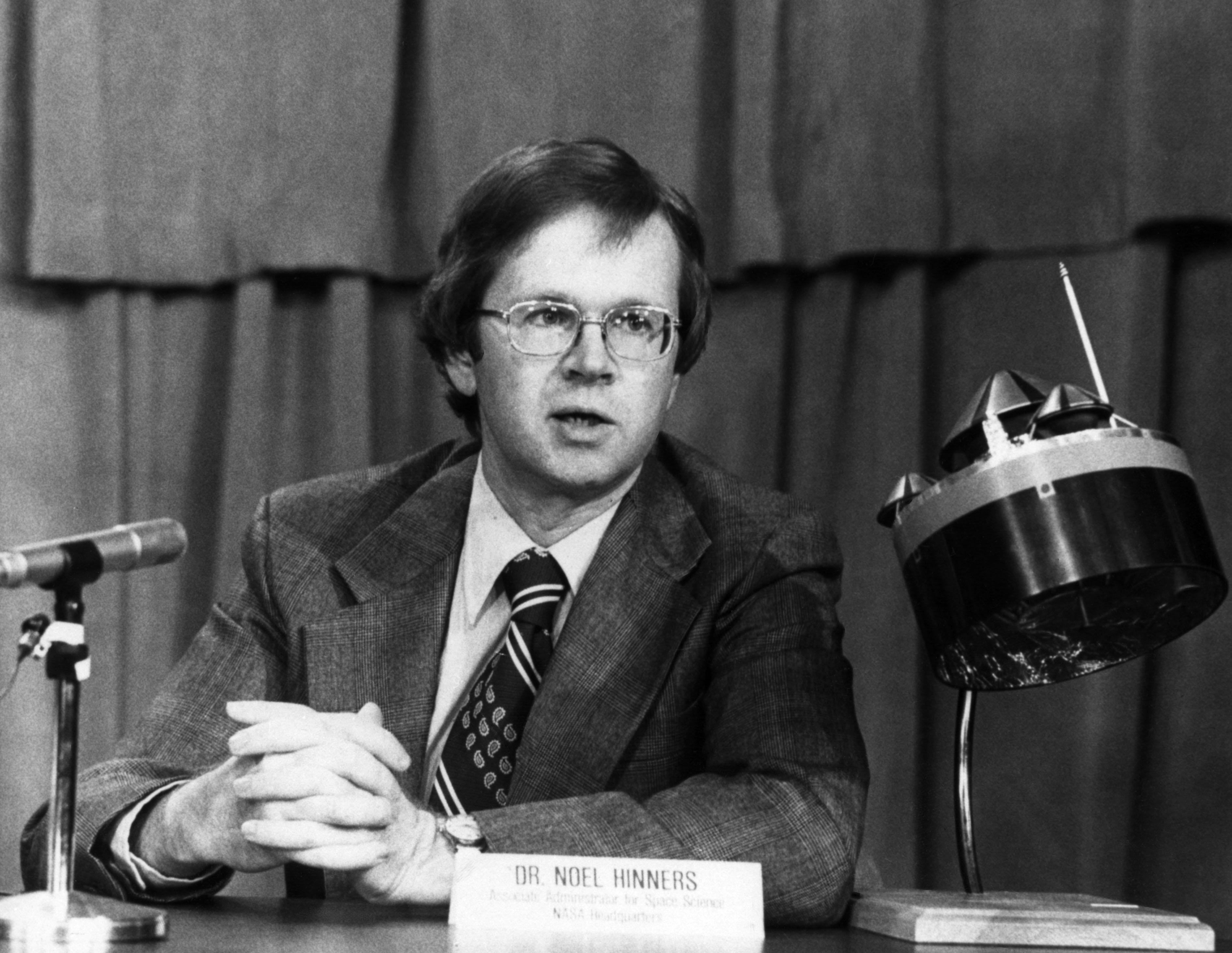 Photo of Dr. Noel Hinners when serving as Associate Administrator for Space Science